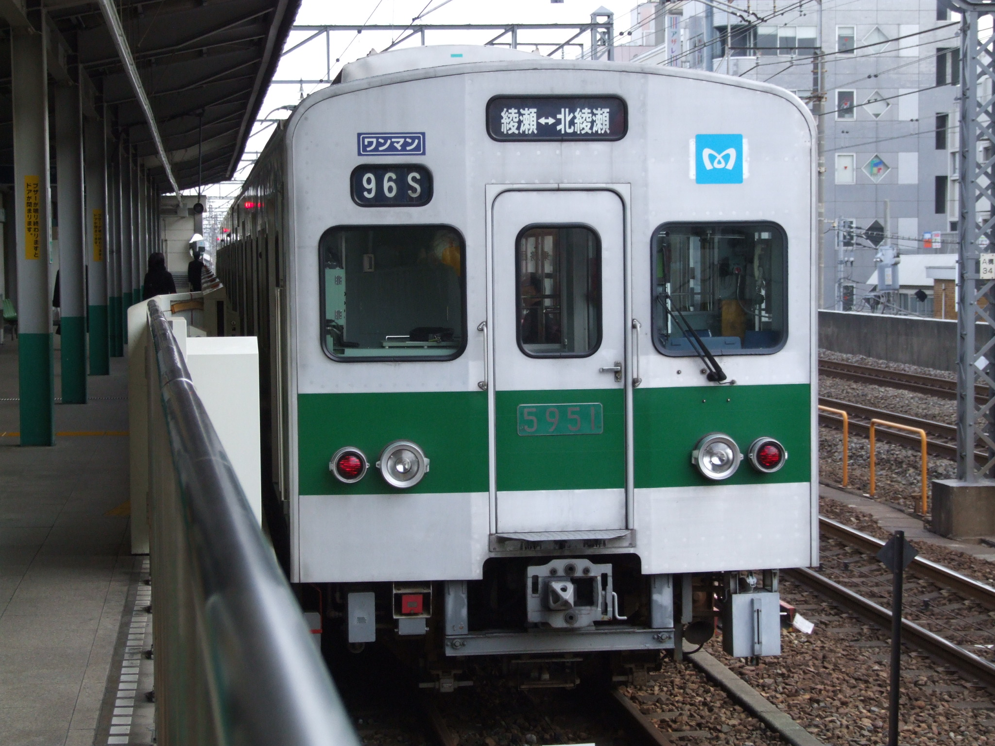 Model 5000,Teito Rapid Transit Authority（→Tokyo Metro）,Japan 15,November 2007 Lover of Romance take a photograph.